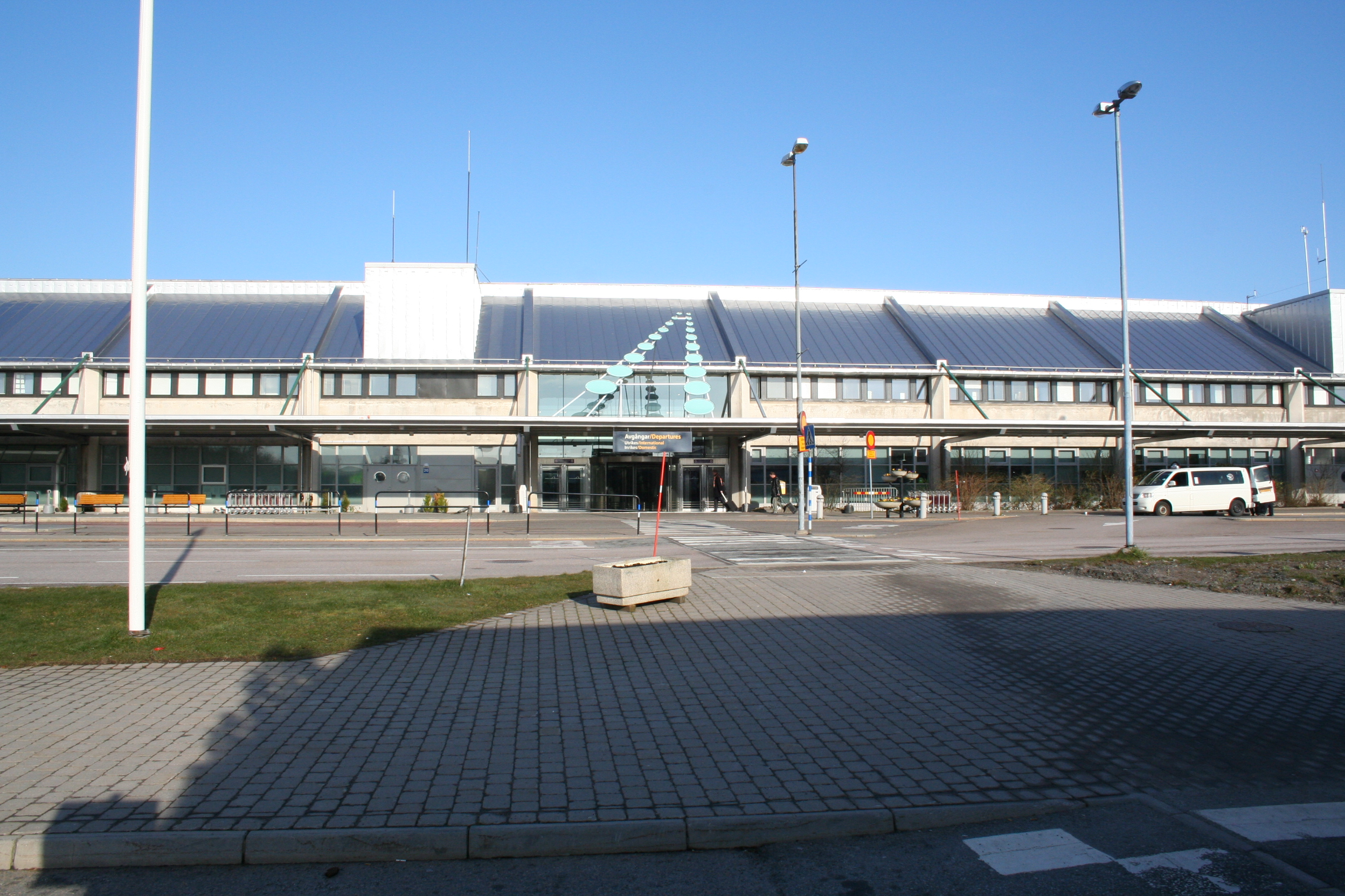 departures entrance at the Landvetter Airport